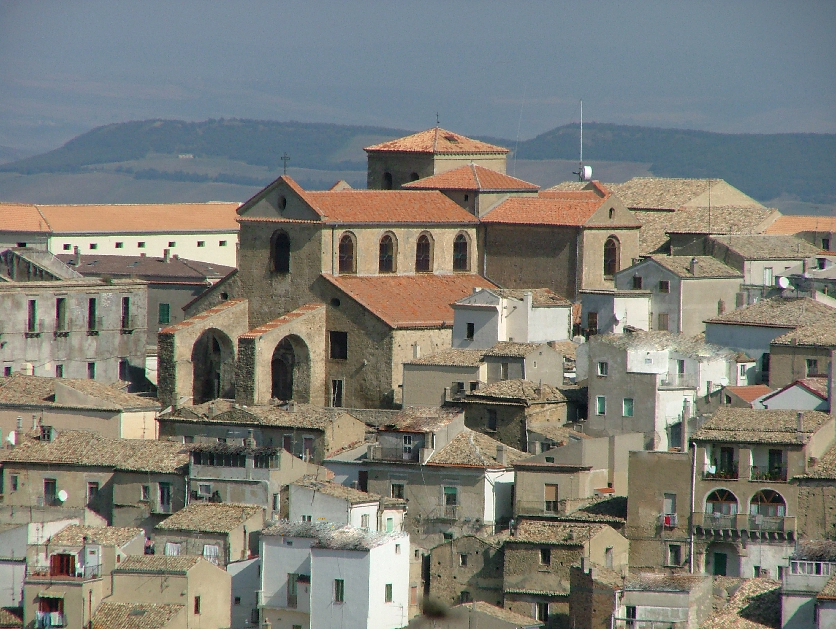 Tricarico - Cattedrale di S. Maria Assunta, author Rocco Stasi GFDL